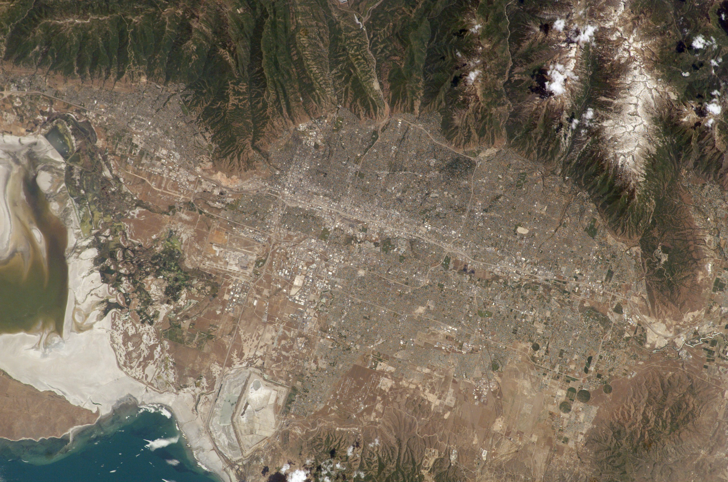 Public domain photo of Salt Lake City, Utah taken by NASA This regional view of Salt Lake City, photographed on 14 June 2003 from the International Space Station, shows the city and its suburbs nestled between the Wasatch Front and the Great Salt Lake. Interstate Highway 15 runs North-South through the valley, with suburbs arrayed east and west of the highway (annotated on the image). A photograph like this one helps in visualizing the trade-offs between urban, agricultural, and wildlife uses of water in a desert environment.